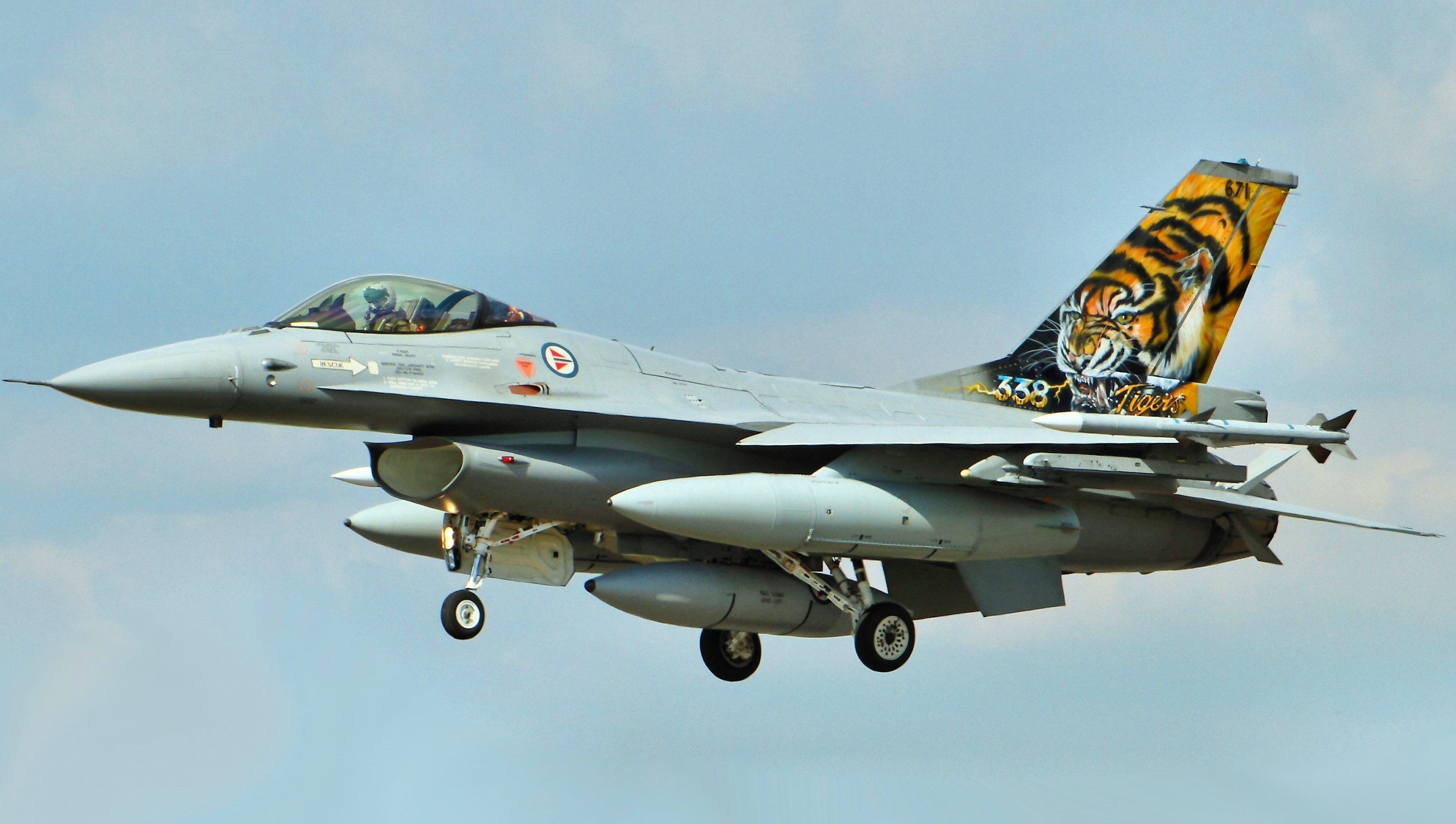 F16 - RIAT 2014